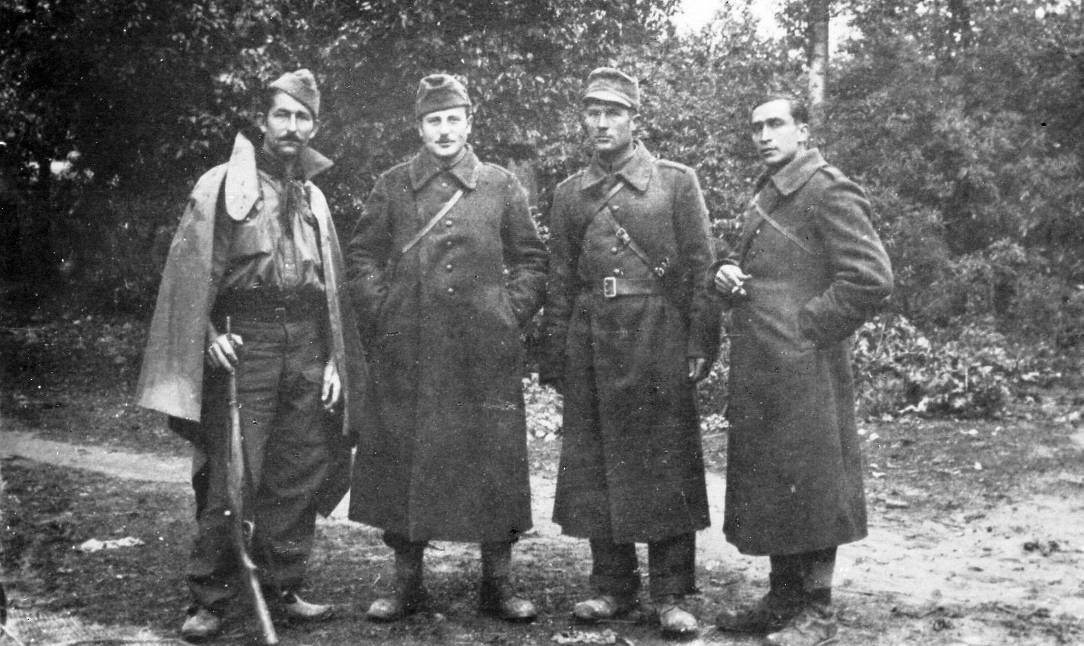 Officers of First Aegean Strike Brigade, 1944 This media file is produced by Wikipedian in Residence in Category:Wikipedian in Residence at DARM in 2016.